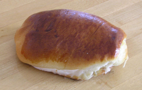 Peanut butter bun Chinese pastry